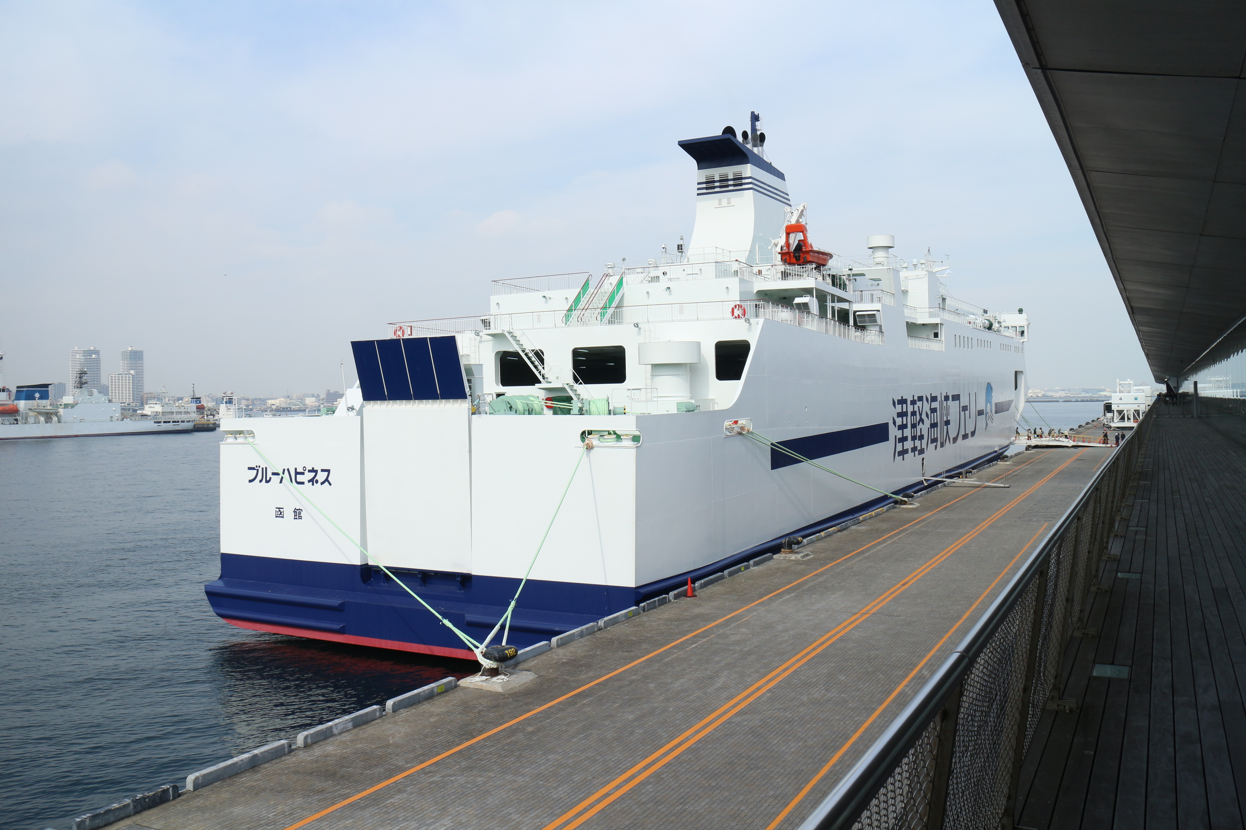 Blue Happiness at quay in Port of Yokohama 1 March 2017